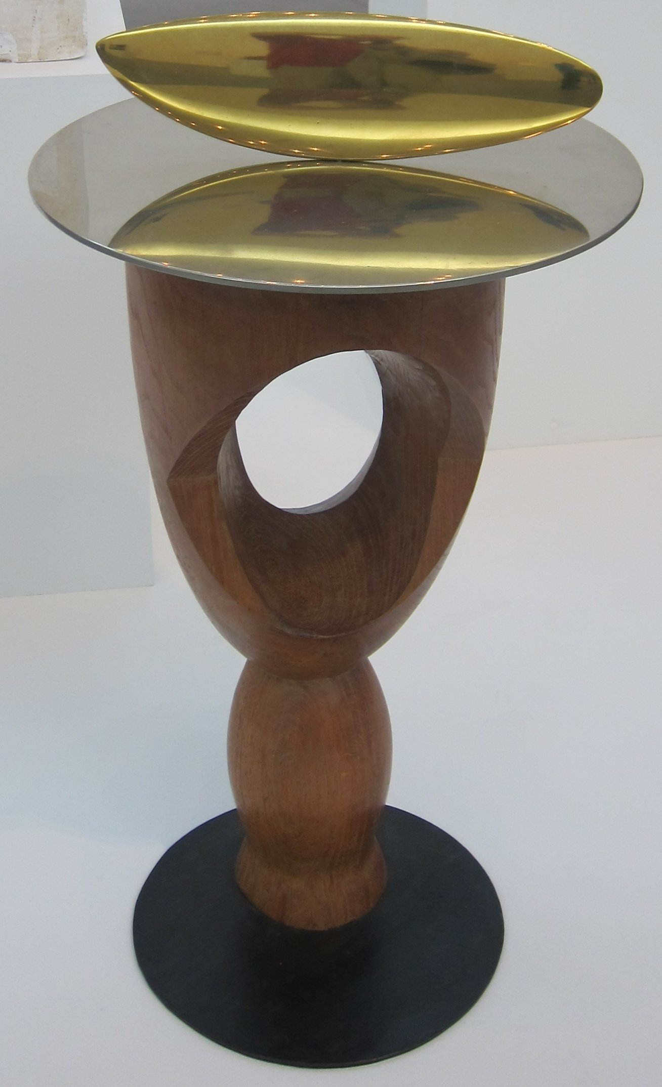 Fish, bronze, metal and wood sculpture by Constantin Brâncuşi, 1926, Tate Modern